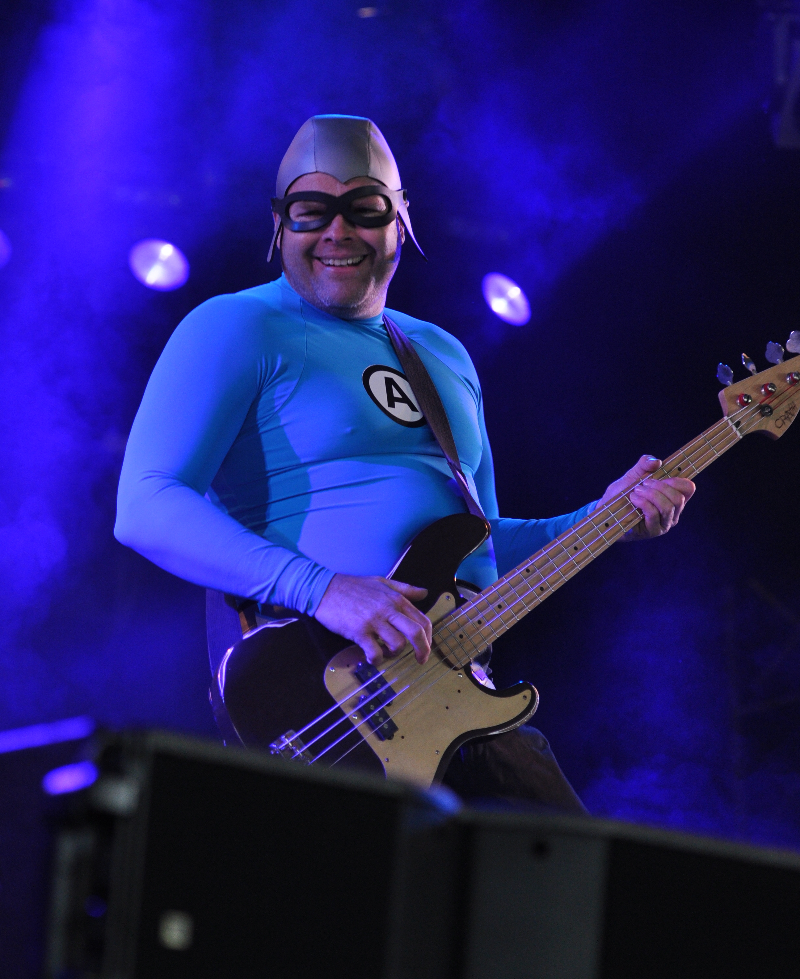 The Aquabats at Groezrock 2013